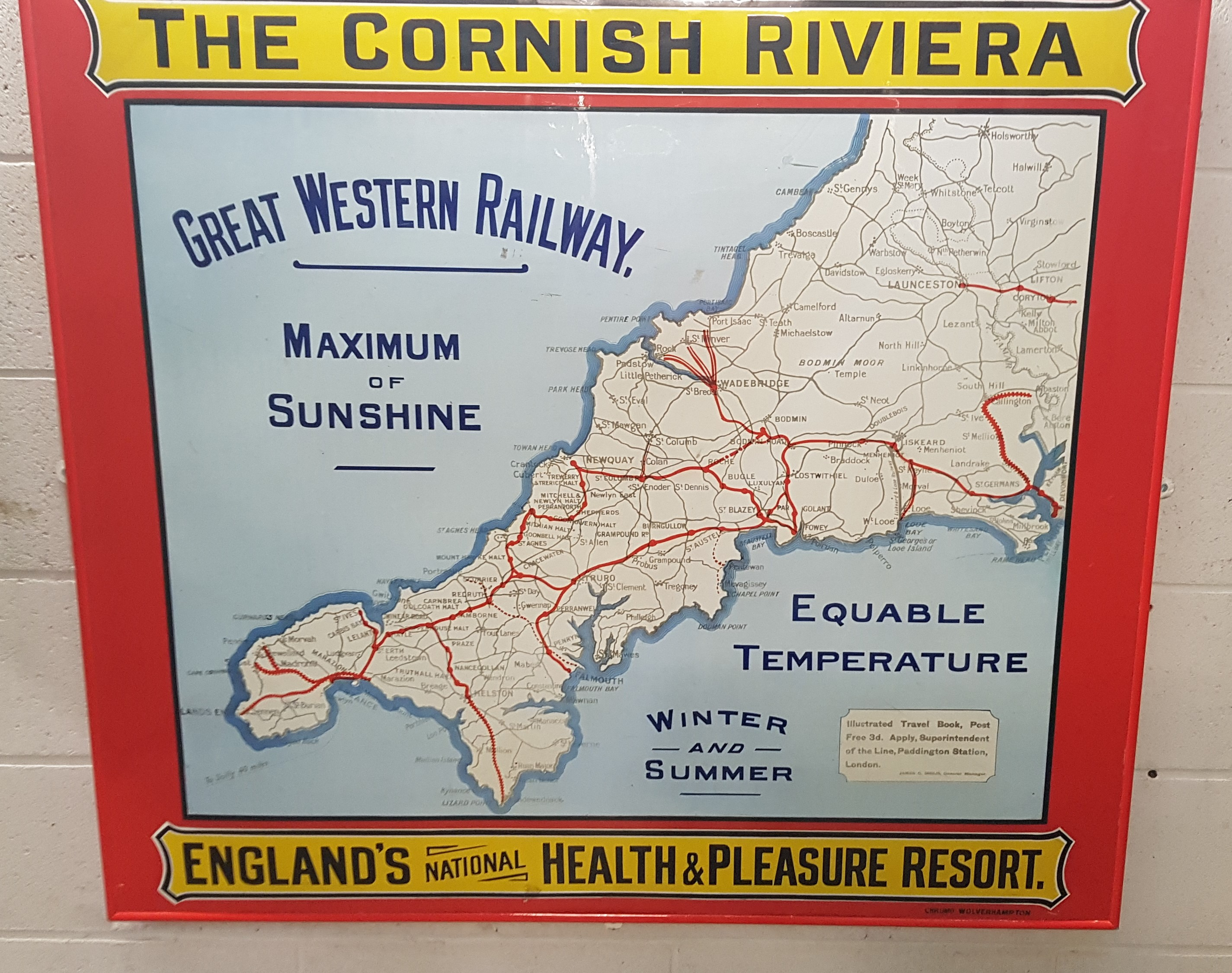 Map of the Cornish Riviera featuring railway lines